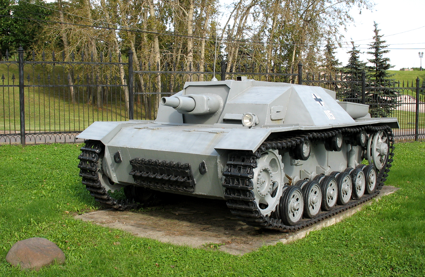 “Special purpose vehicle” of the German Wehrmacht until 1945, here: Sd.Kfz 142, German Assault gun III, also Self-propelled gun with Assault gun 7.5 cm StuK 37 L/24, versions: A, B, C, D, and E. Actual file: Sd.Kfz. 142, Ausf. B.